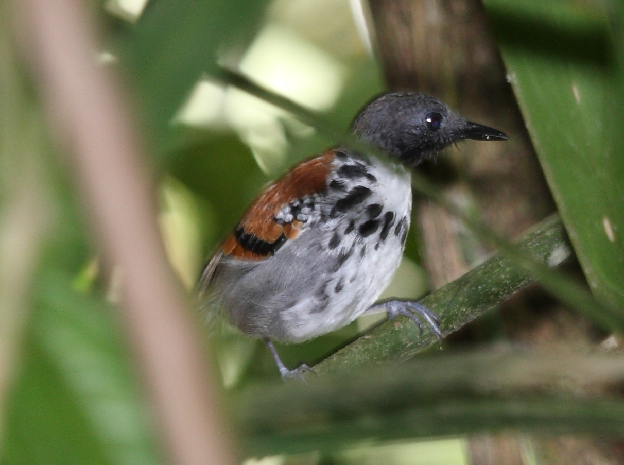 Spotted Antbird (Hylophylax naevioides). Taken in Panama.